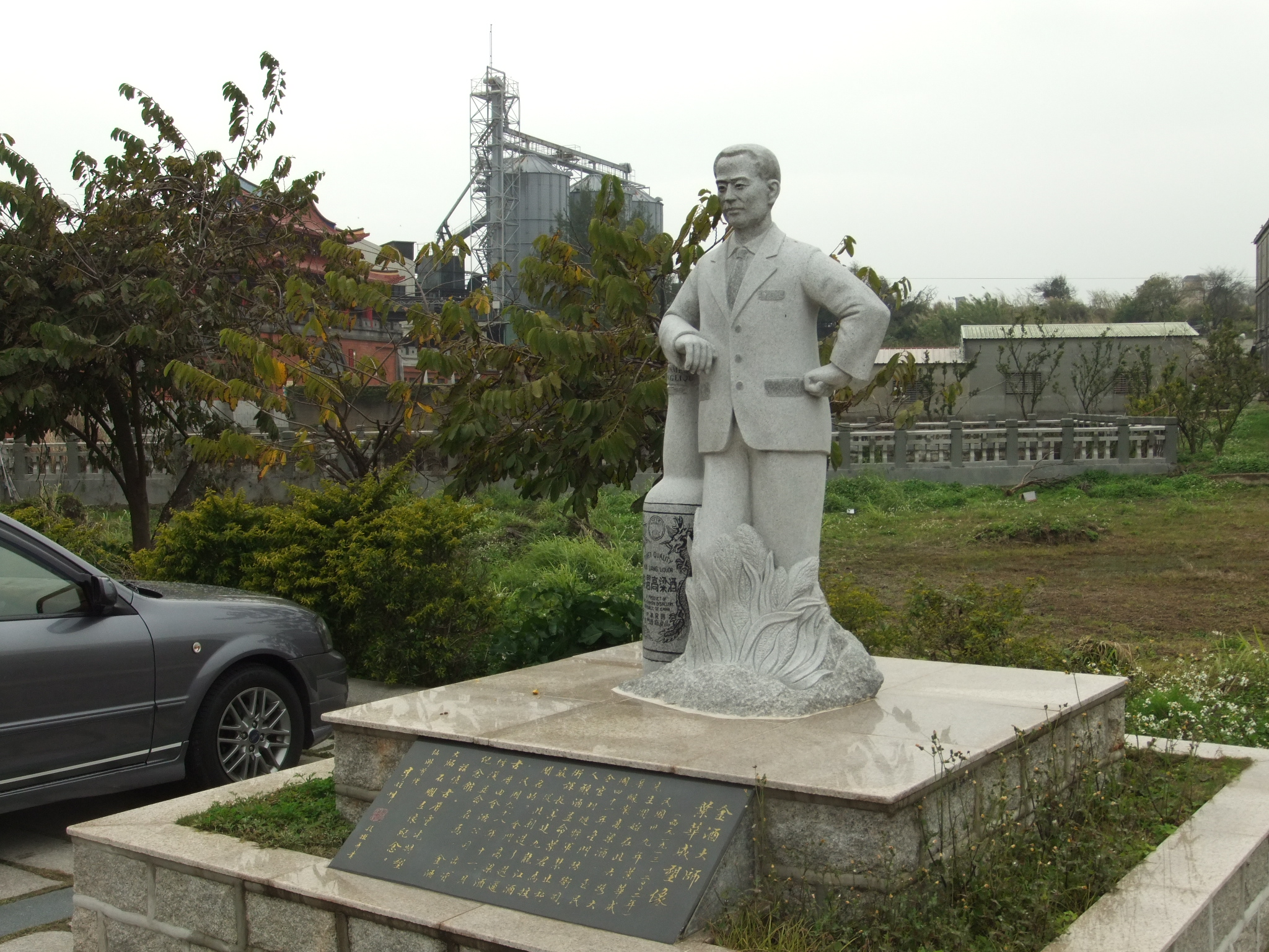 Kinmen Distillery. Outside of the main door, one can see the statue of the founder.